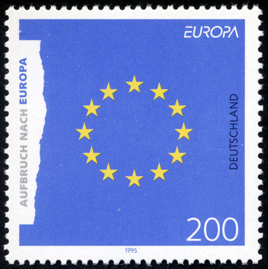 Stamp from Deutsche Post AG from 1995, Flag of Europe